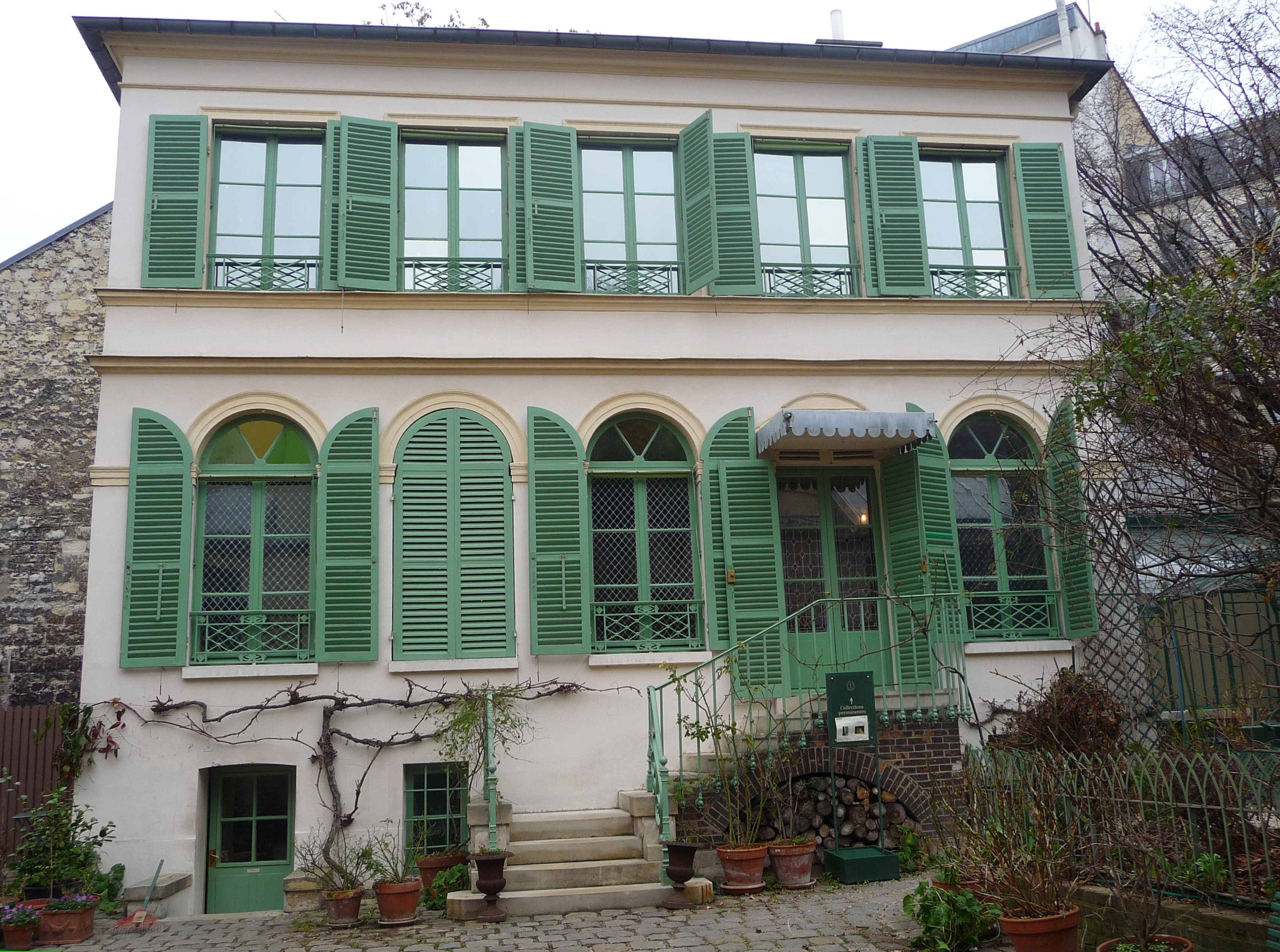 Vie romantique Museum in Paris